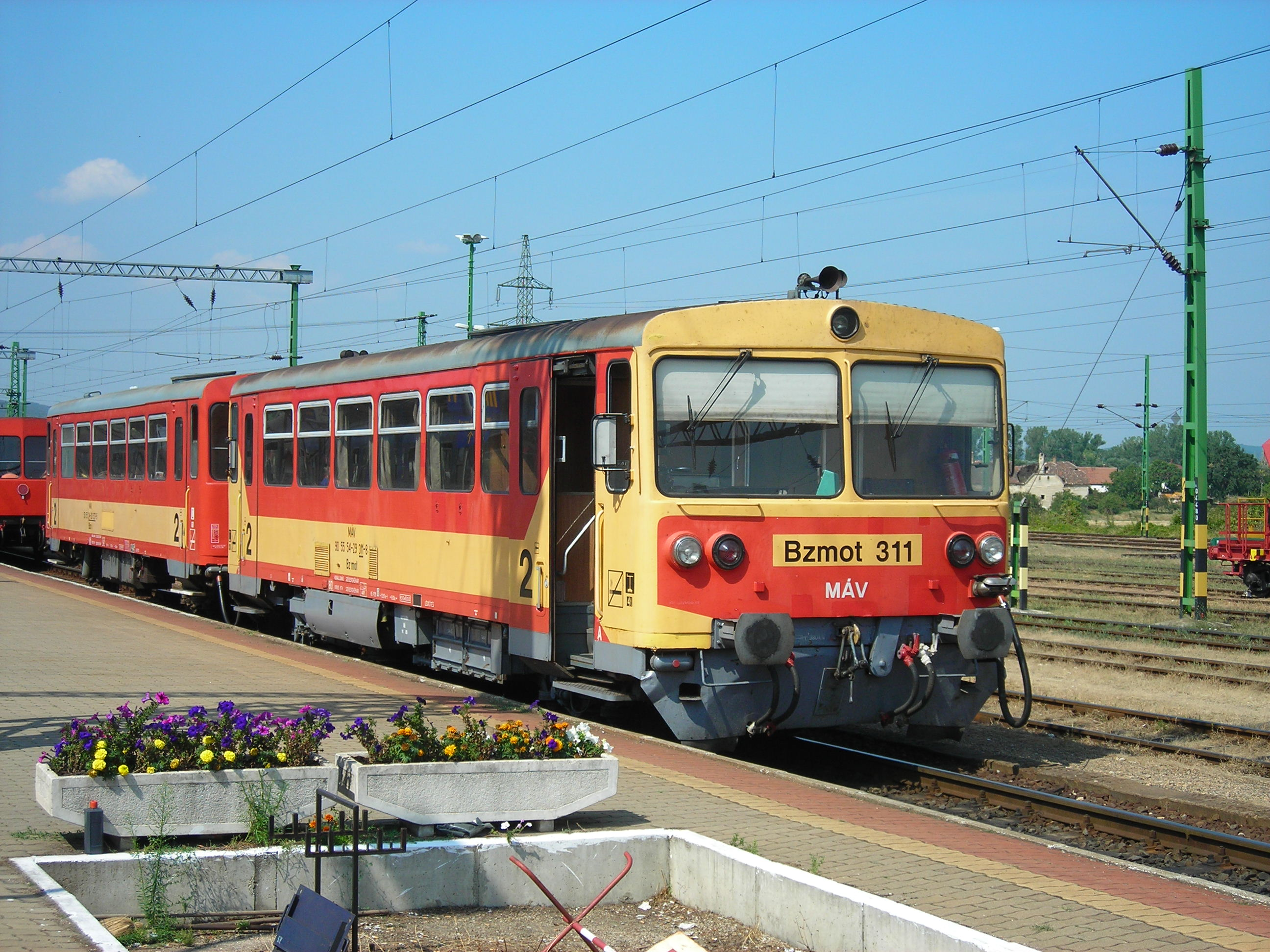 Veszprém Railway Station